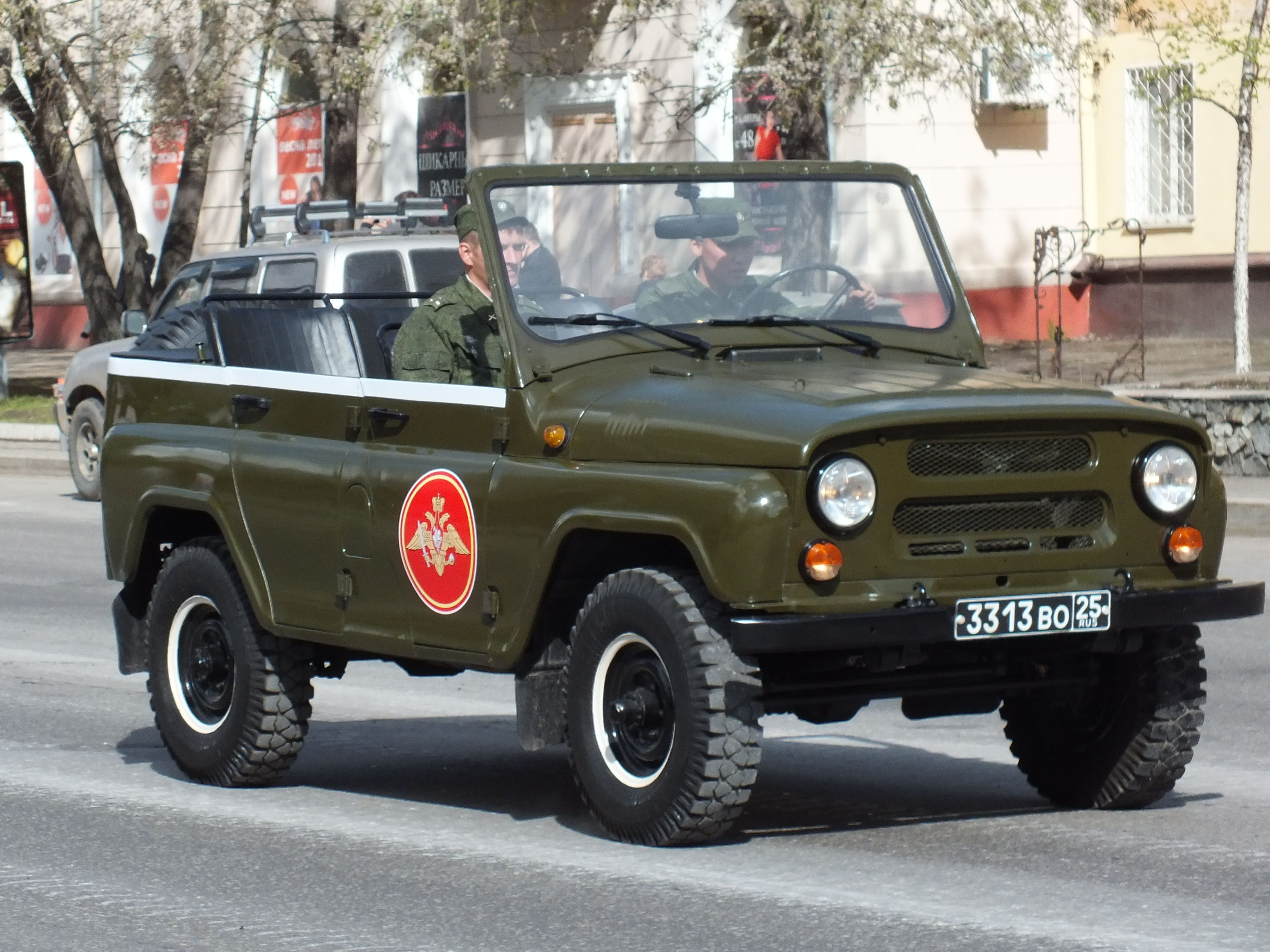 UAZ-3151